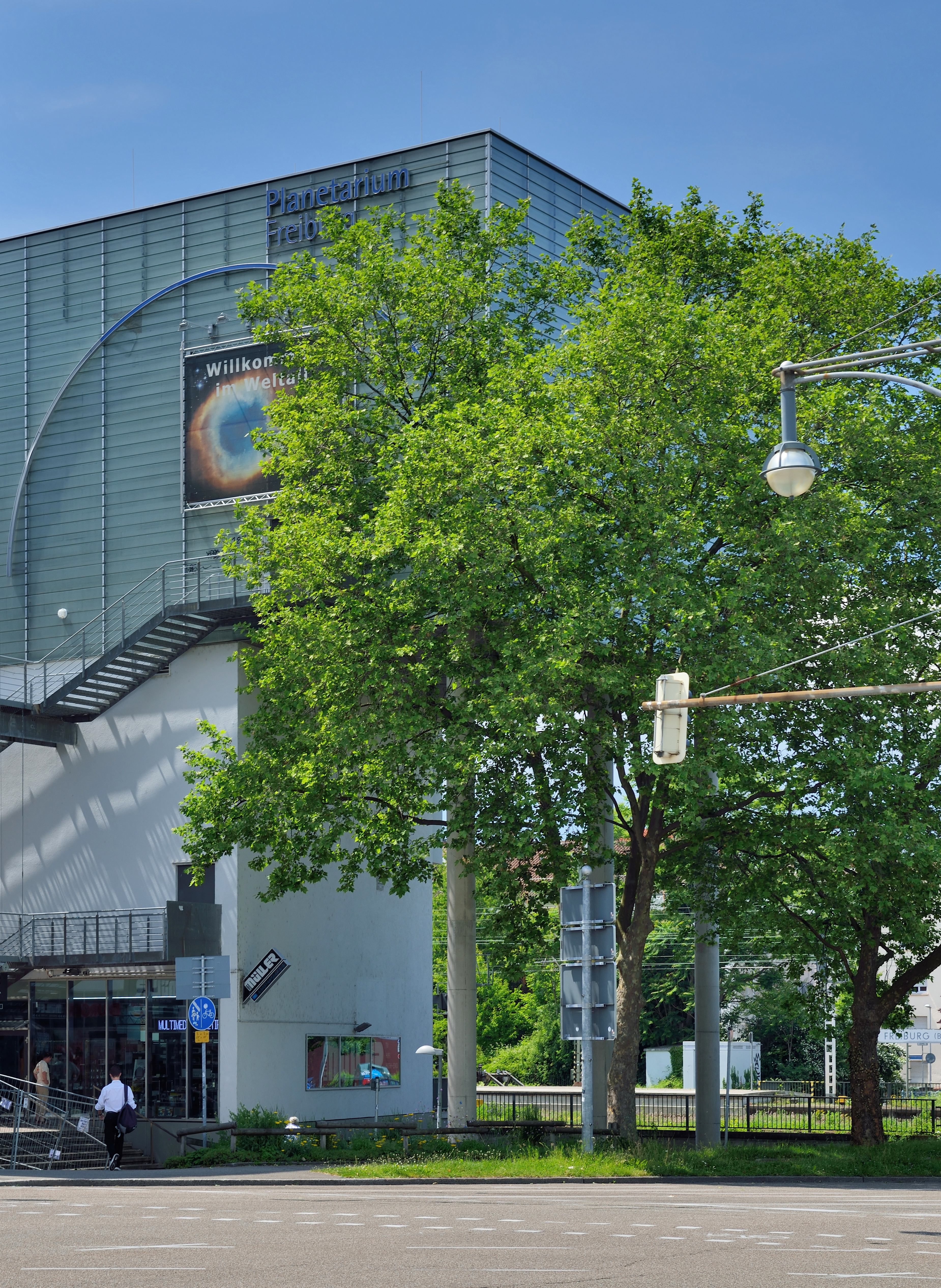 Planetarium Freiburg